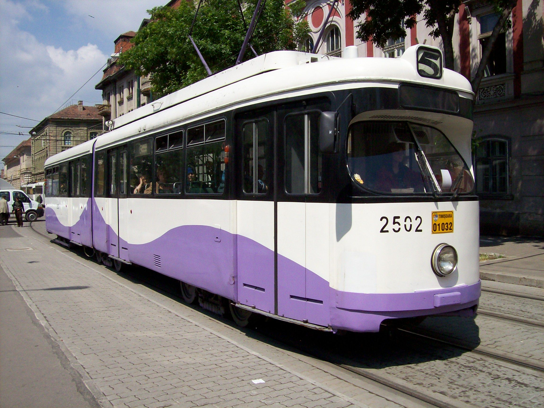 Düwag GT6 2502, tram line 5, Timișoara, 2007